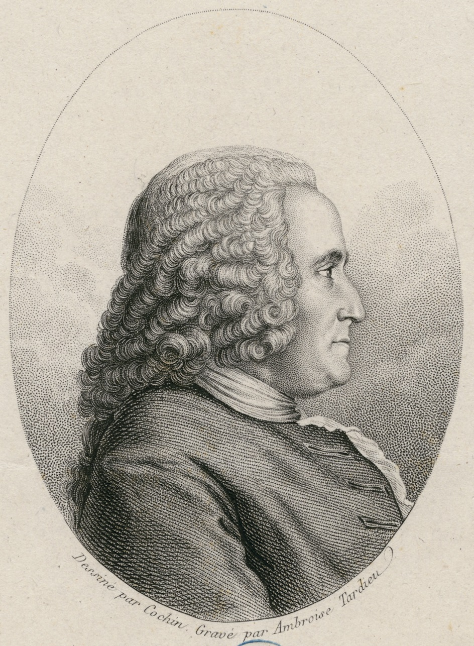 Depicted person: DODART (Denis) Wikidata has entry Q1187350 with data related to DODART (Denis).